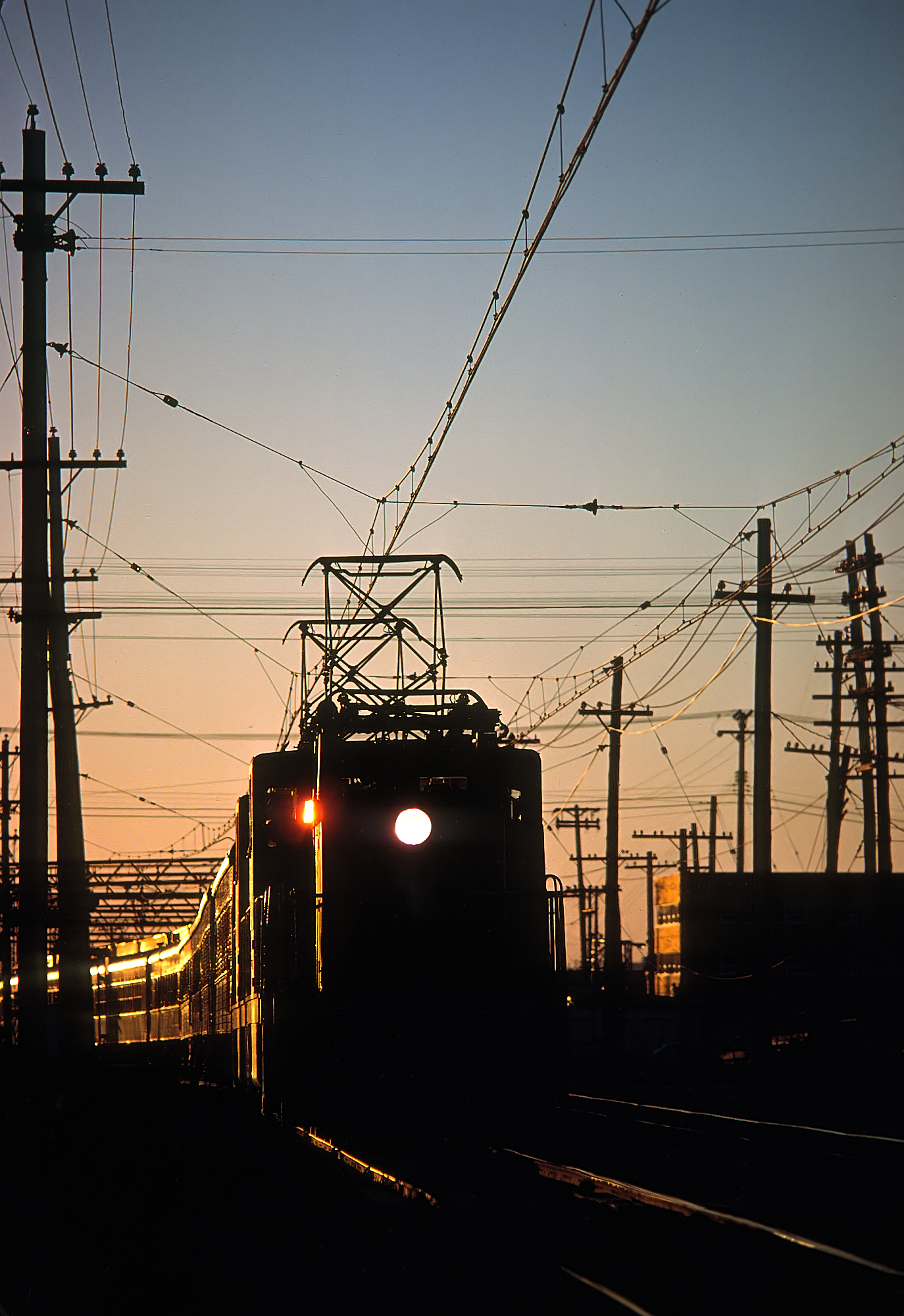 This is from Roger Puta's Winterail slide program First Class, A Study in Lighting.